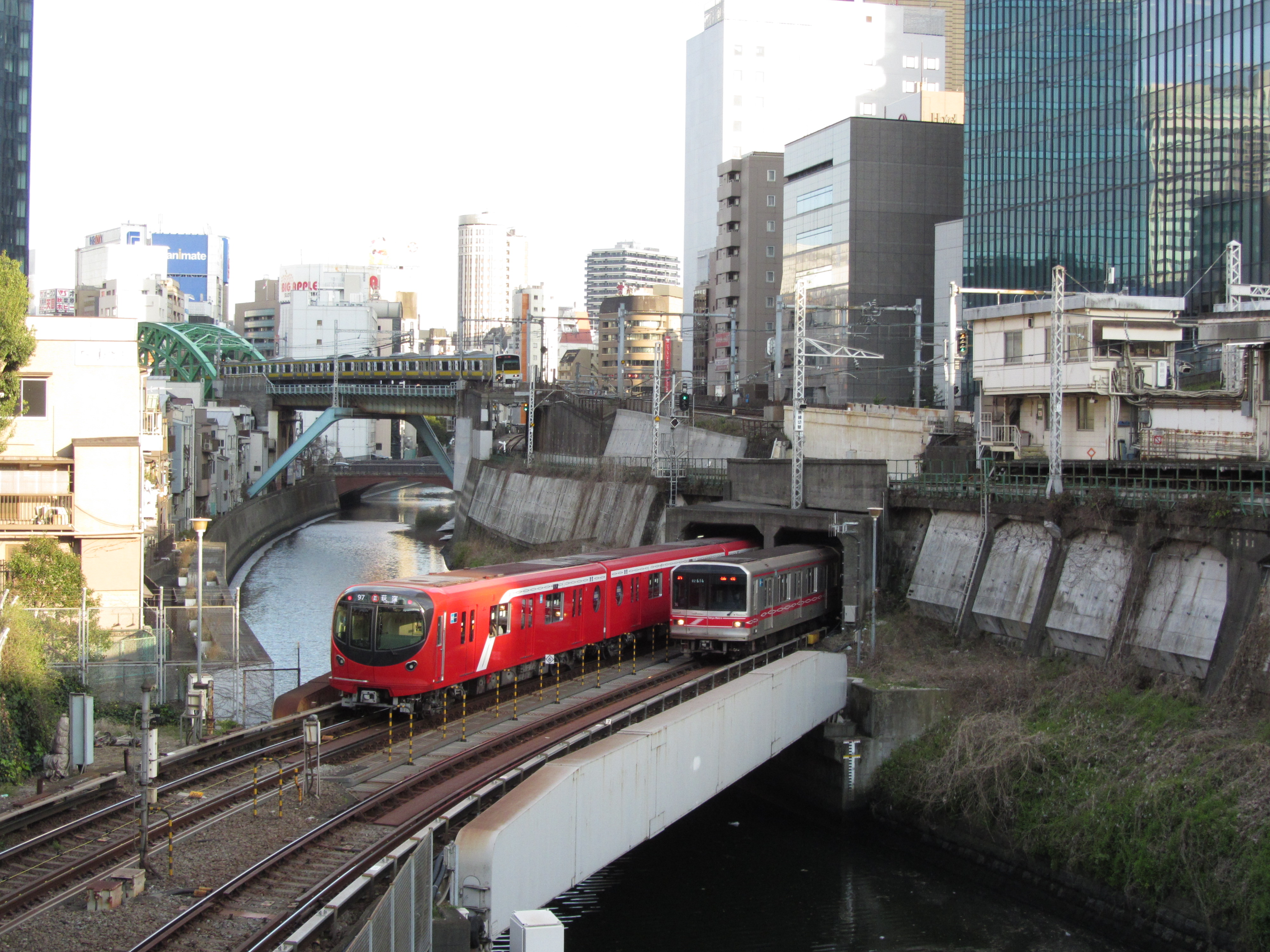 Chuo Sobu Line E231 Series passes over the Tokyo Metro Marunouchi Line at Ochanomizu, Tokyo, Japan 17/03/20